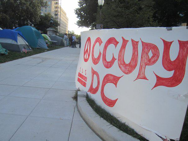 Picture of a sign reading "Occupy DC" and some tents in downtown D.C. during the Occupy Movement in 2011. For the page.